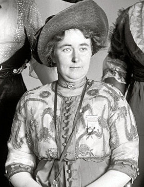 Lizzy Lind af Hageby (1878–1963), British-Swedish feminist, philanthropist and anti-vivisection activist, taken in 1913 at the International Anti-Vivisection Congress in Washington, D.C.